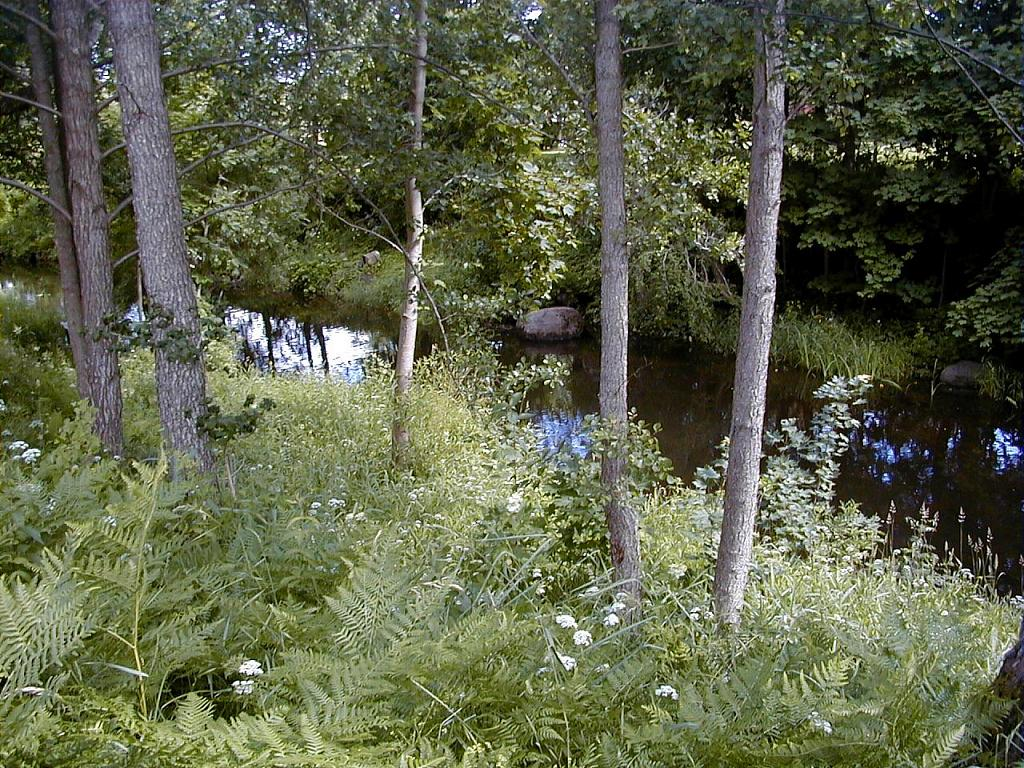 Grīva River near Upesgrīva (Latvia)